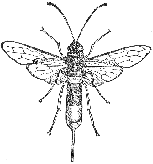 Sawfly illustration. The original caption read: Fig. 518.--Sirex gigas, saw fly. (After Tashenberg.)